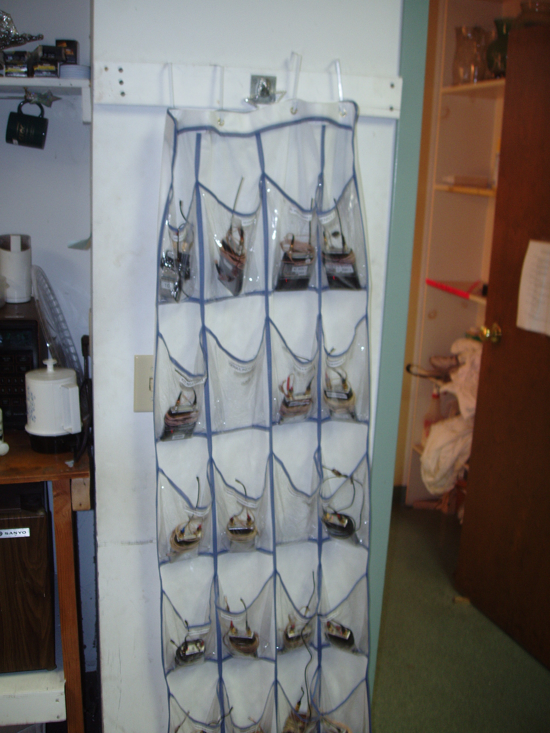 Radio mics waiting for pick up by actors in a green room. Taken by User:Lekogm November 27th, 2004